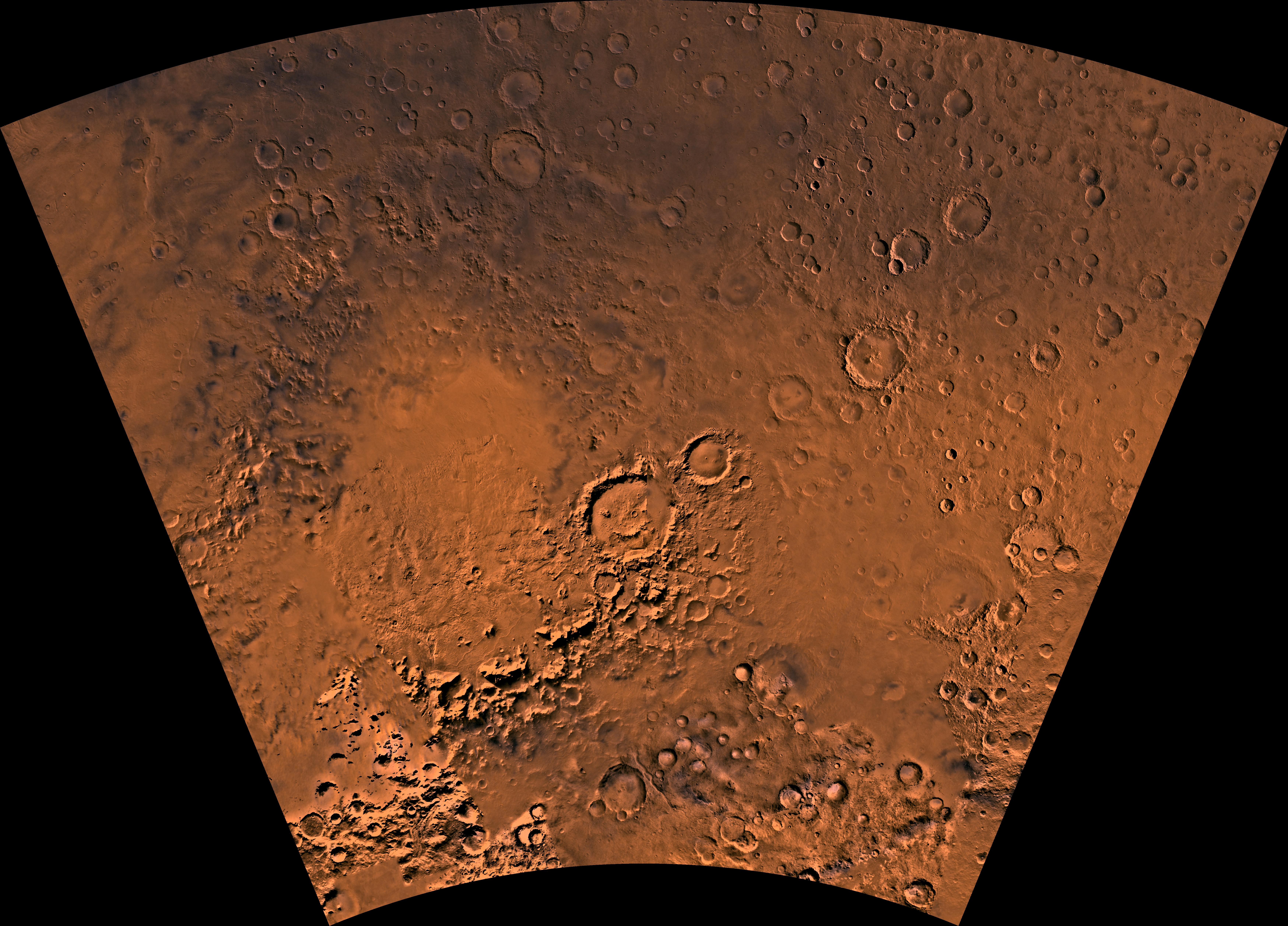 The Argyre region on Mars as viewed by the Viking 1 orbiter. The Argyre Planitia crater lies to the left in this photo. Mars digital-image mosaic merged with color of the MC-26 quadrangle, Argyre region of Mars. The west-central part is marked by the large Argyre impact basin, defined by a rim of rugged mountain blocks that surrounds a nearly circular expanse of light-colored plains 800 km across. The large basin is surrounded by heavily cratered highlands. Latitude range -65 to -30 degrees, longitude range 0 to 60 degrees.